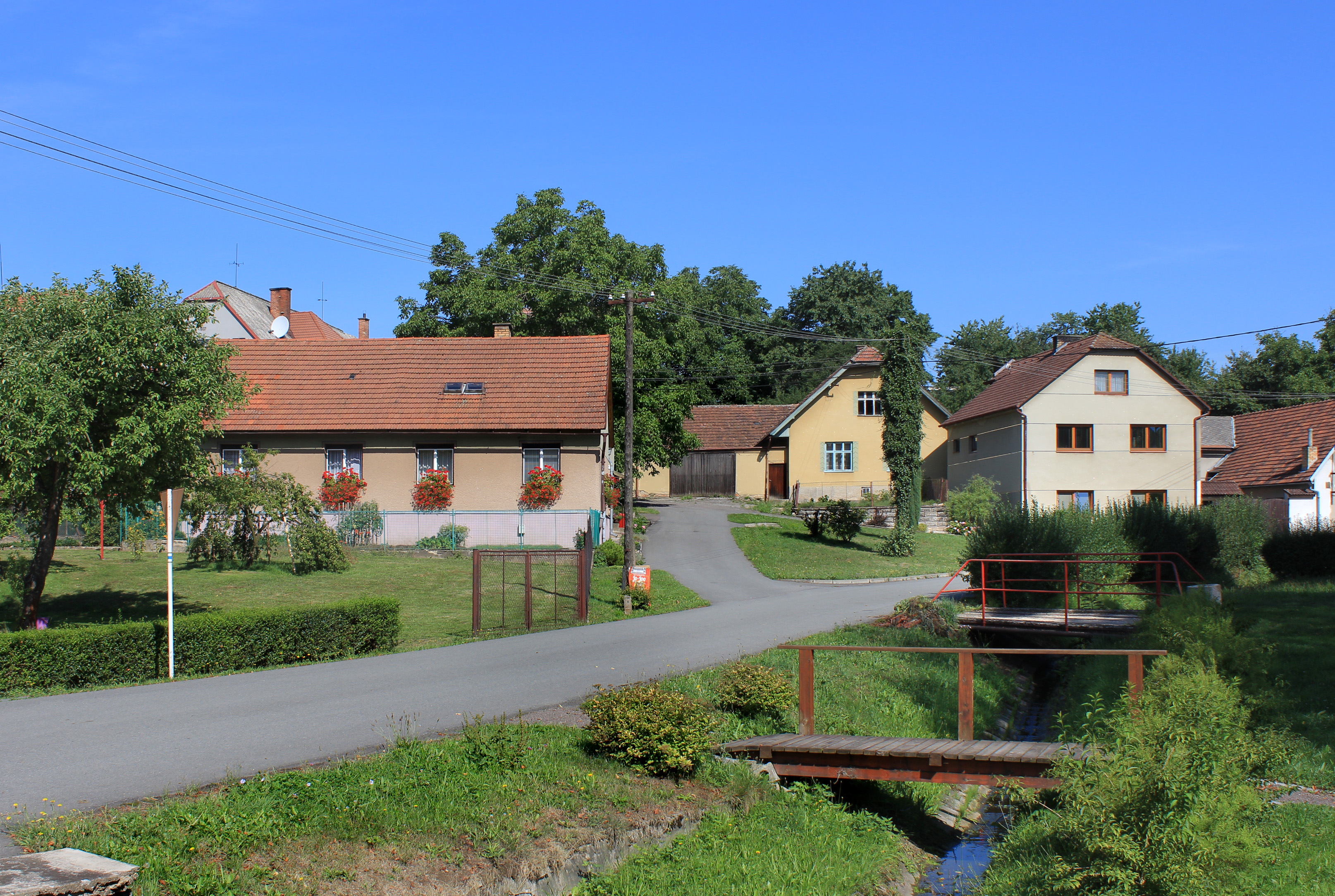 Common in Vlčkov, Czech Republic.